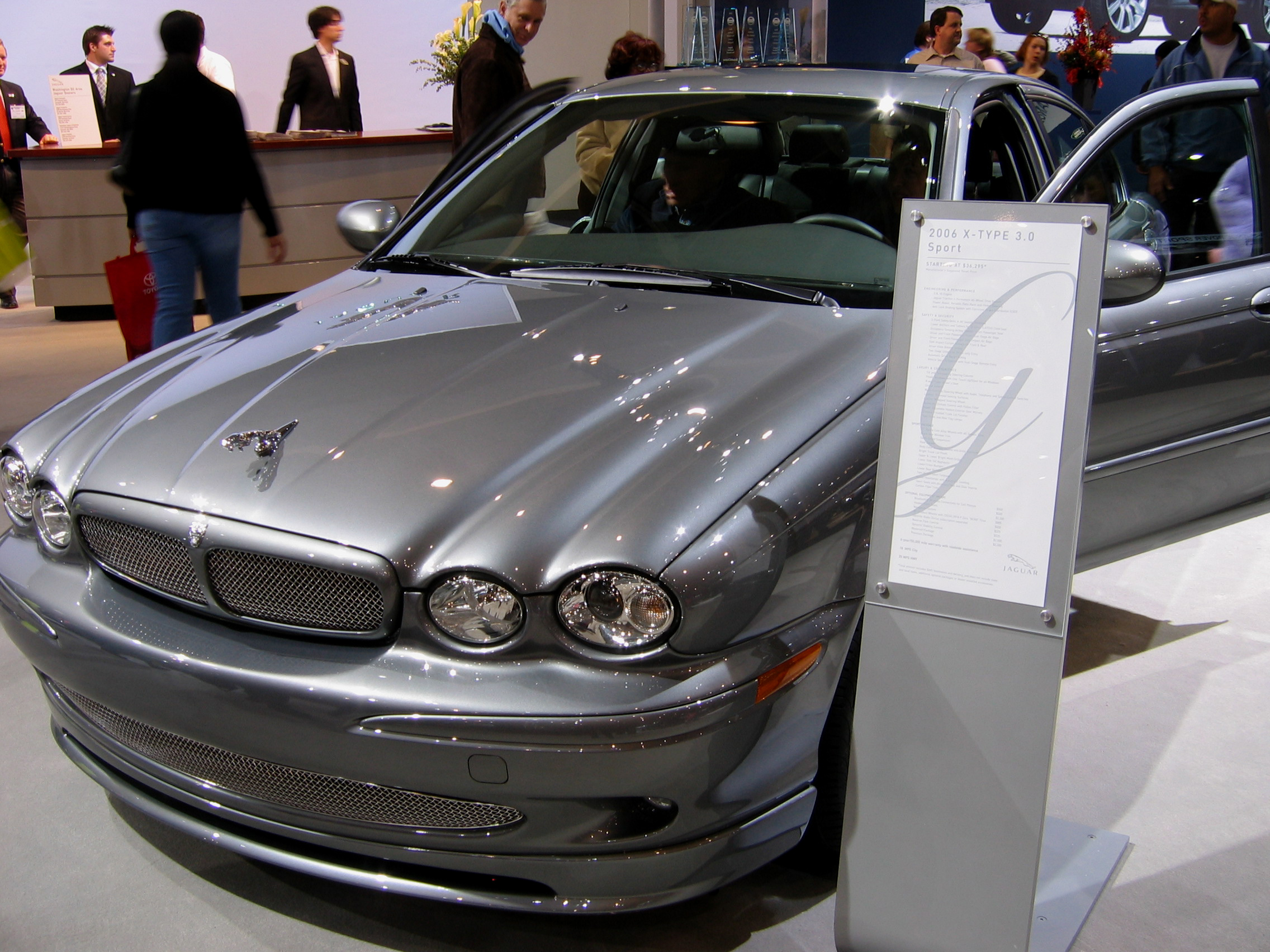 Photo by User:AudeVivere, taken at the 2006 Washington Auto Show.